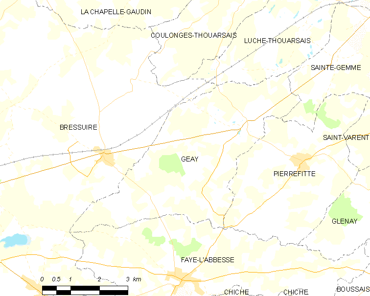 Map of French municipality Geay